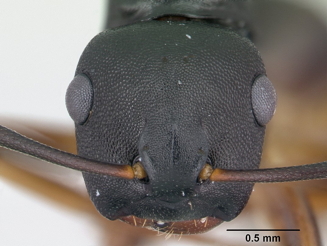 Head view of ant Phasmomyrmex wolfi specimen casent0178250.